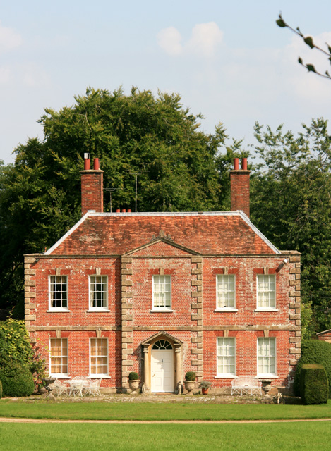 The Manor, Tidcombe Looking north from St Michael's churchyard. The house was for many years the home of Earl Jellicoe, who led a colourful and busy life